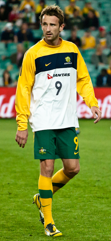 Joshua Kennedy representing the Australian national football team against Paraguay at the Sydney Football Stadium.